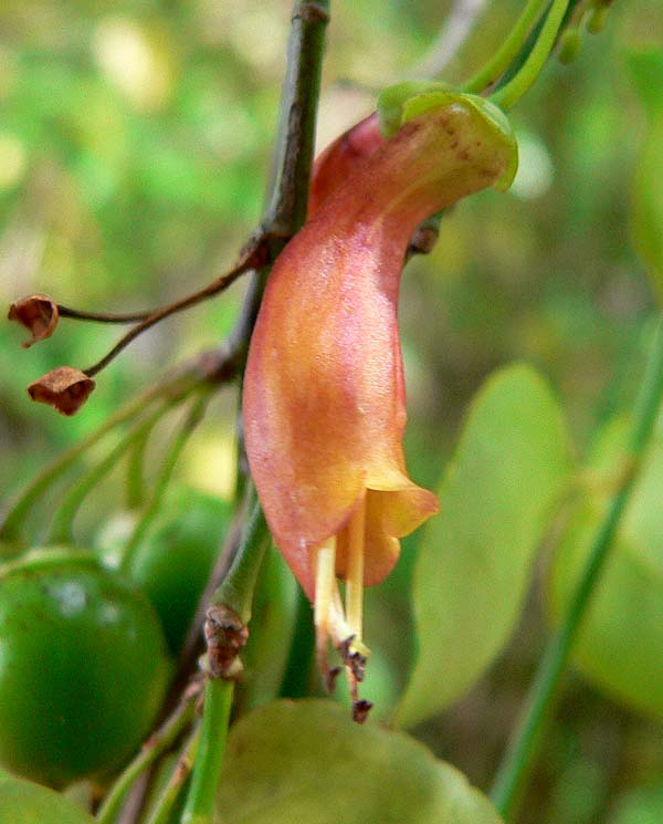 Photo of Halleria lucida at the University of California Botanical Garden